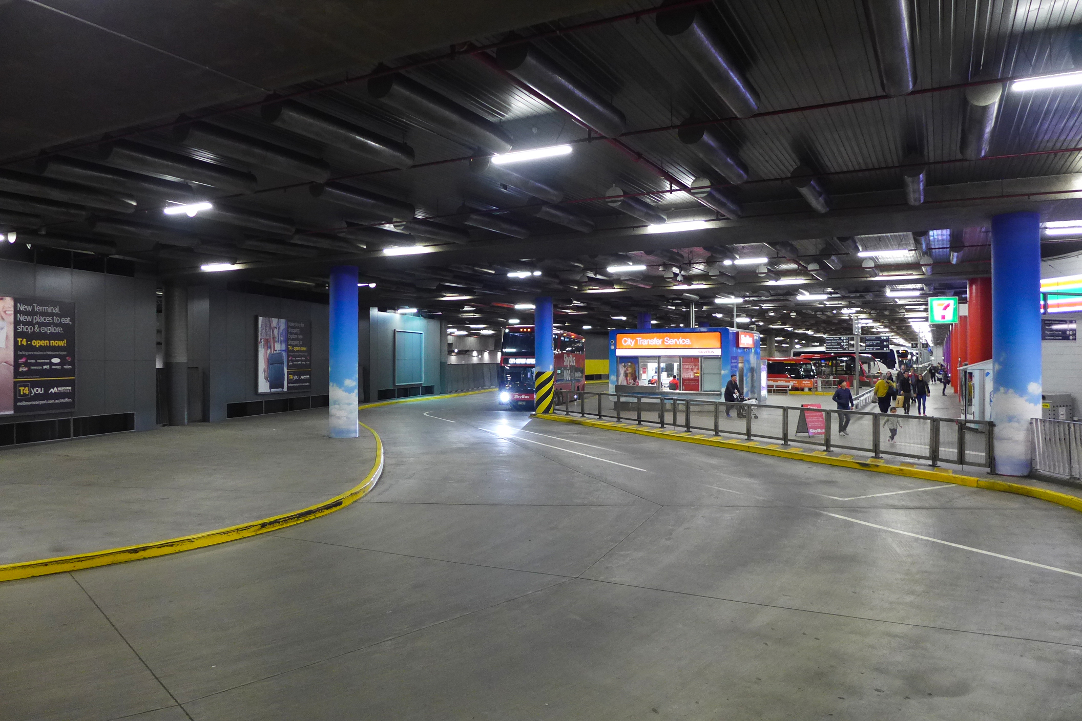 Skybus Super Shuttle Terminal